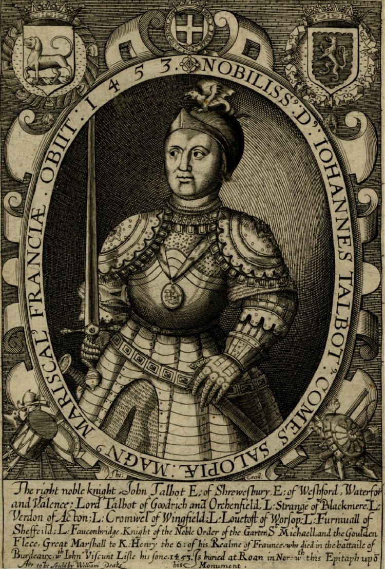 "The right noble knight John Talbot E: of Shrewsbury," engraving, by the English engraver Thomas Cecill. 175 mm x 117 mm. Courtesy of the British Museum, London.